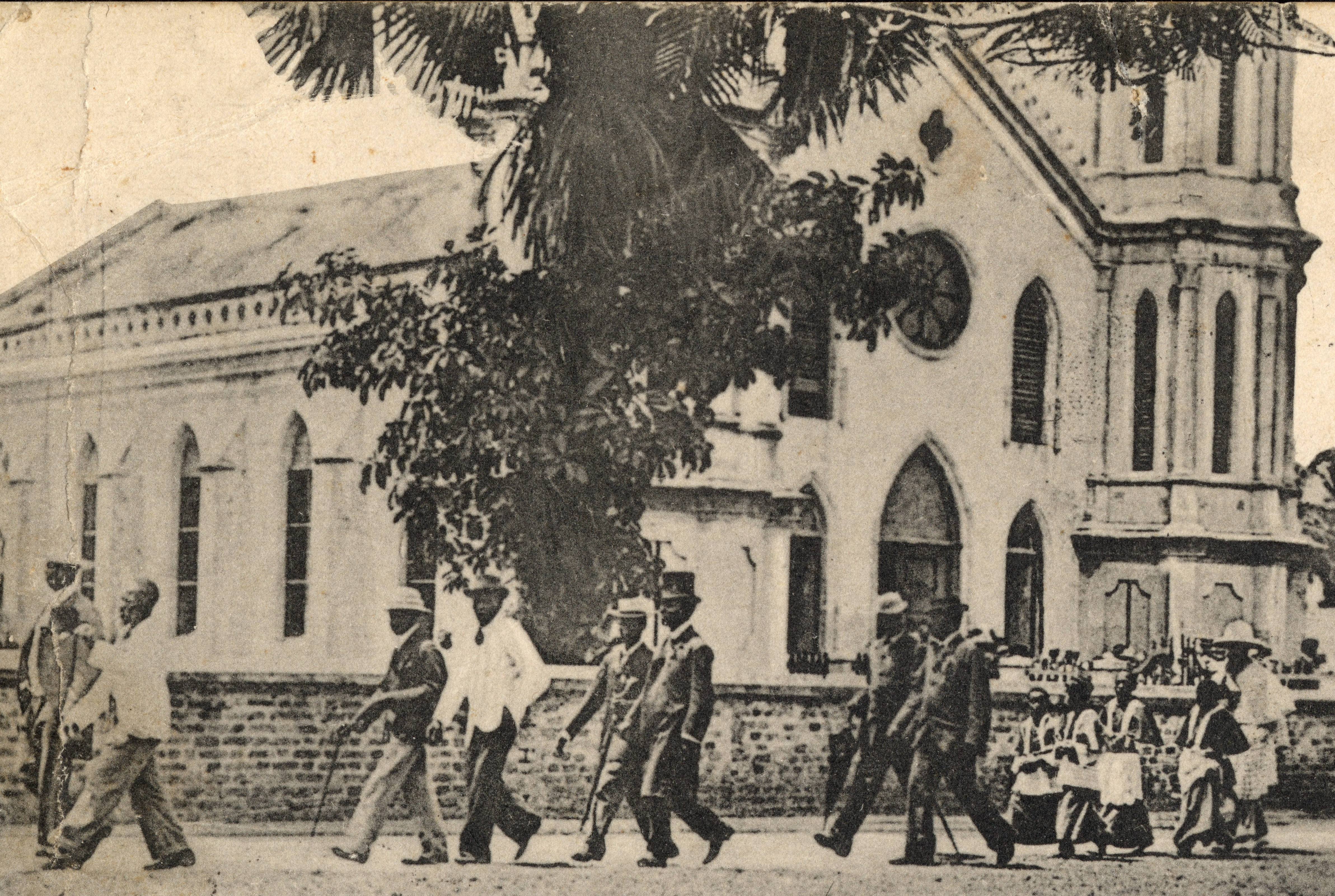 Several African people in Western-style dress are walking on a path in front of a large brick or stone catholic church in Lagos, Nigeria around 1917.